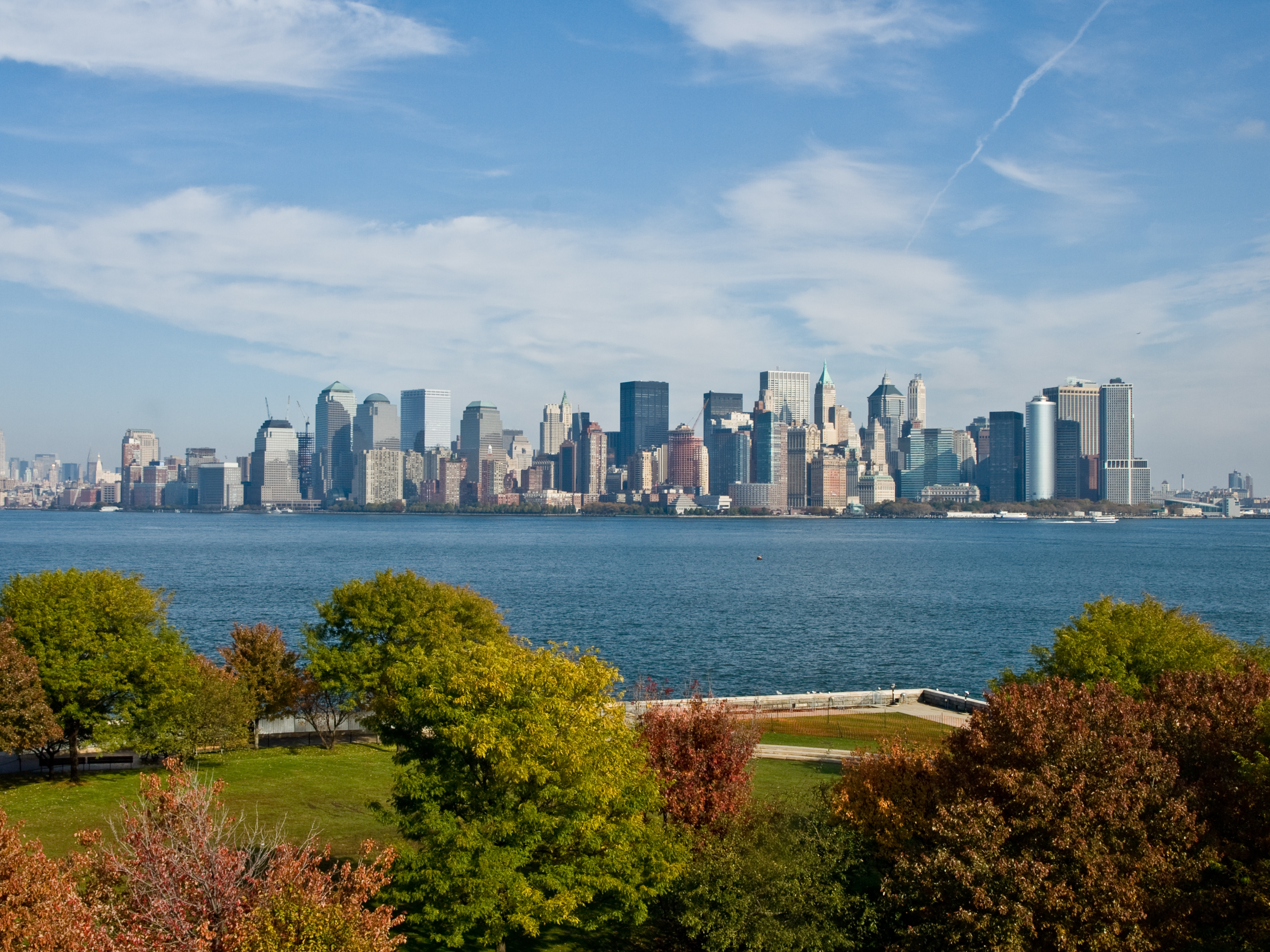 Manhattan, New York skyline as seen from Ellis Island